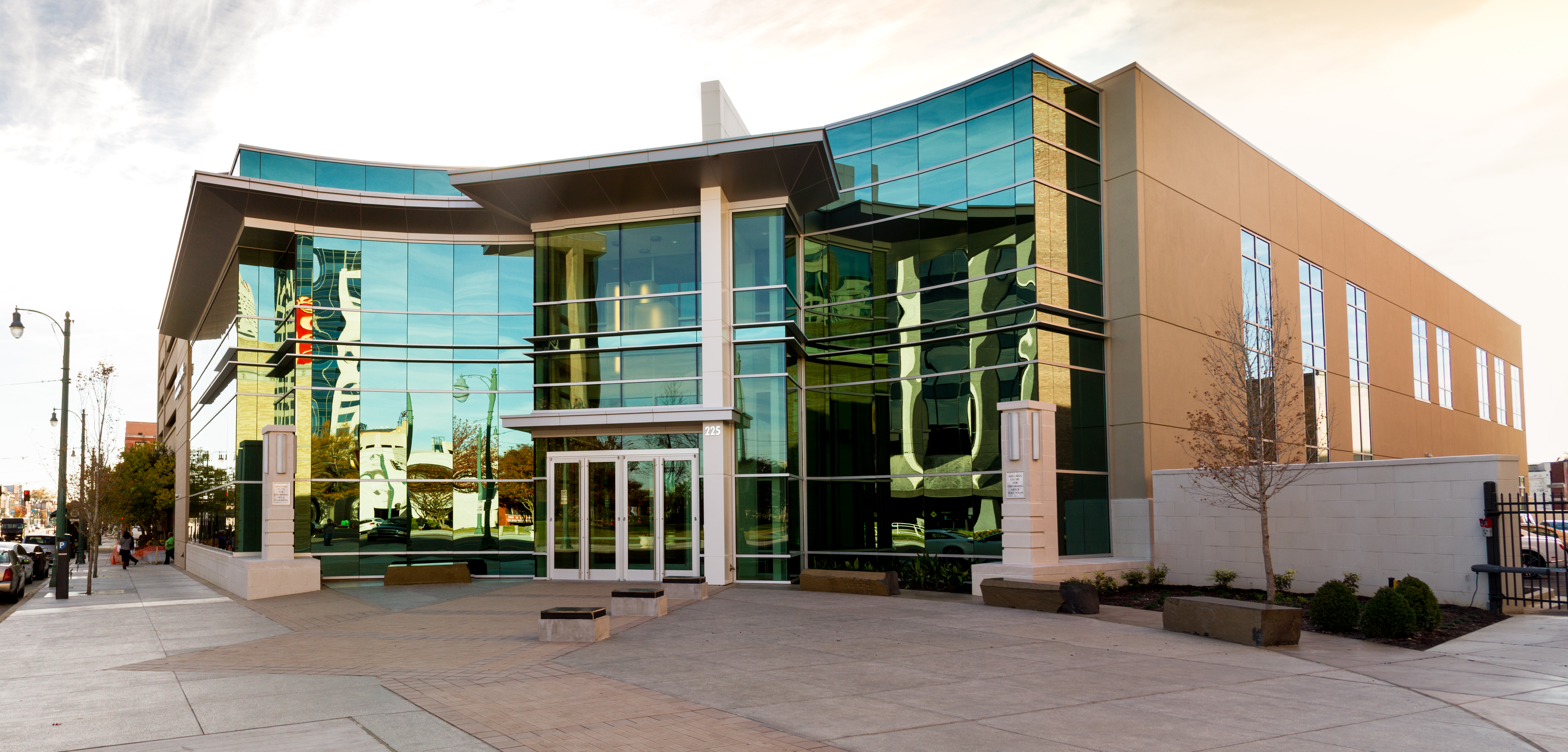 The Halloran Centre for Performing Arts & Education was opened in 2015 to expand the Orpheum Theatre's community and eduation programs.